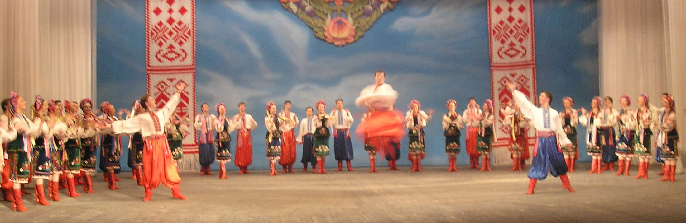 P. Virsky Ukrainian National Folk Dance Ensemble. Performens in Donetsk. April 30. 2006